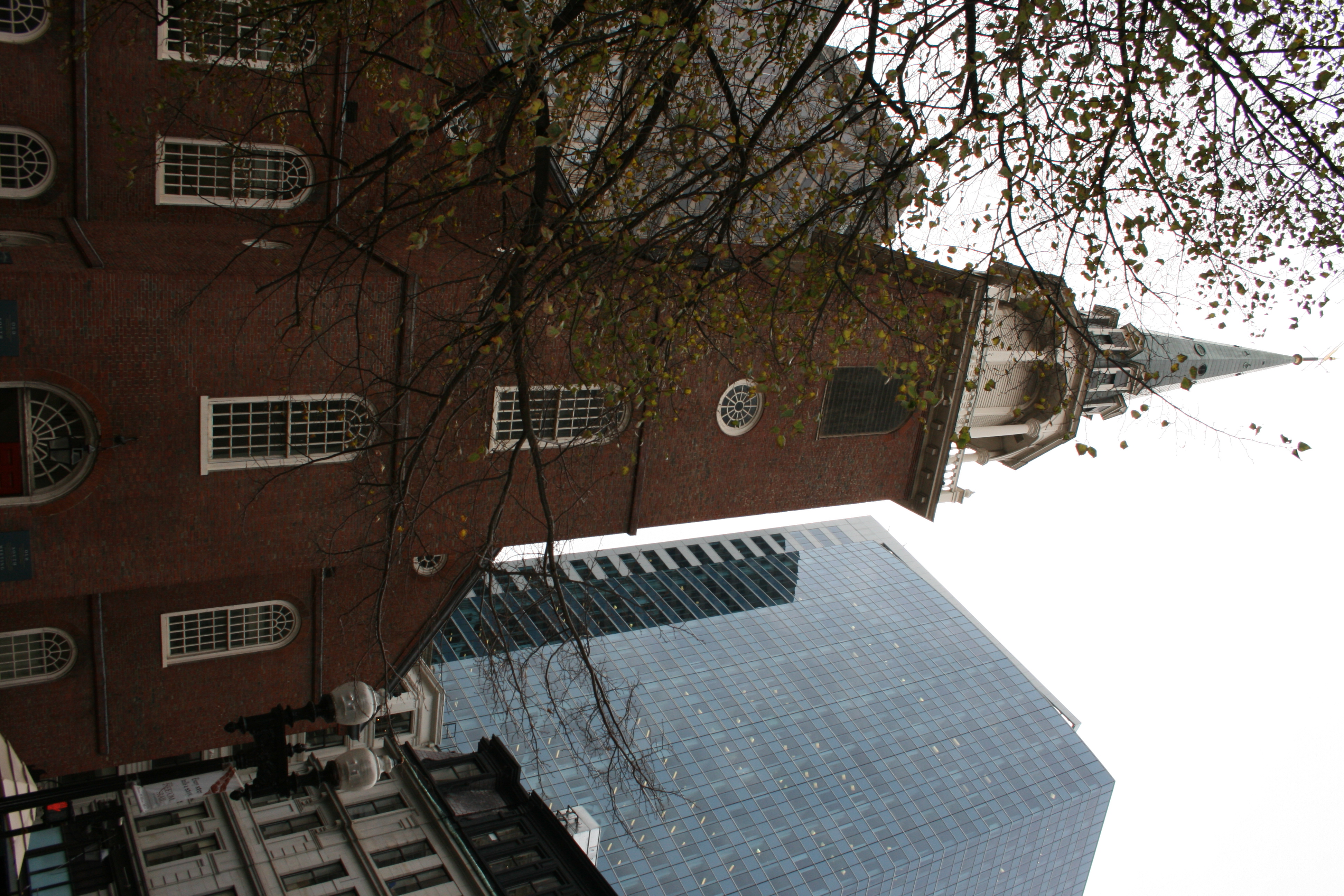 built 1729; site of Boston Tea Party in1773; 5,000 colonists gathered to protest the tax on tea. Colonists dumped three shiploads of tea into Boston Harbor. and changed American history forever.